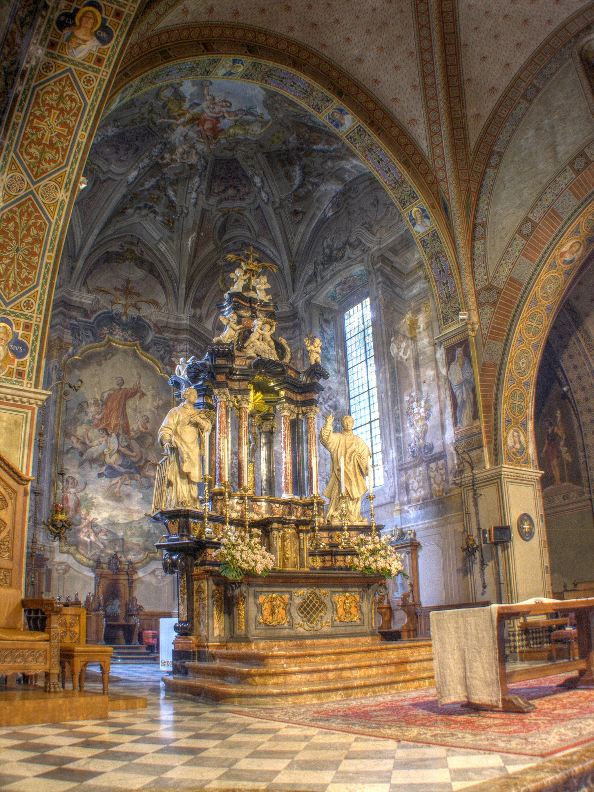 Lugano, Tessin, Switzerland, San Lorenzo cathedral - The altar